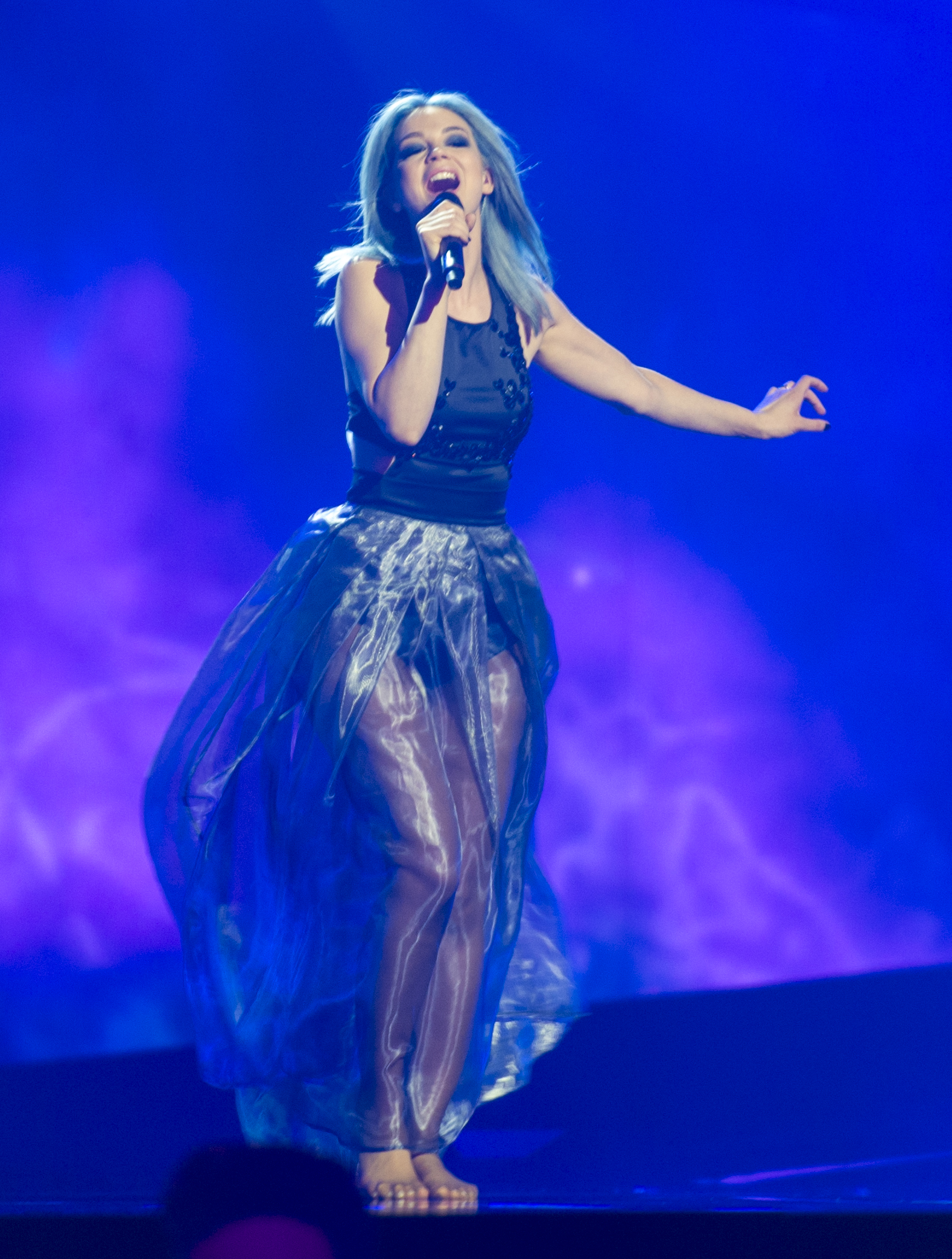 Rykka representing Switzerland with the song "The Last of Our Kind" during a rehearsal before the second semi final of the Eurovision Song Contest 2016 in Stockholm. (Help translate this text)